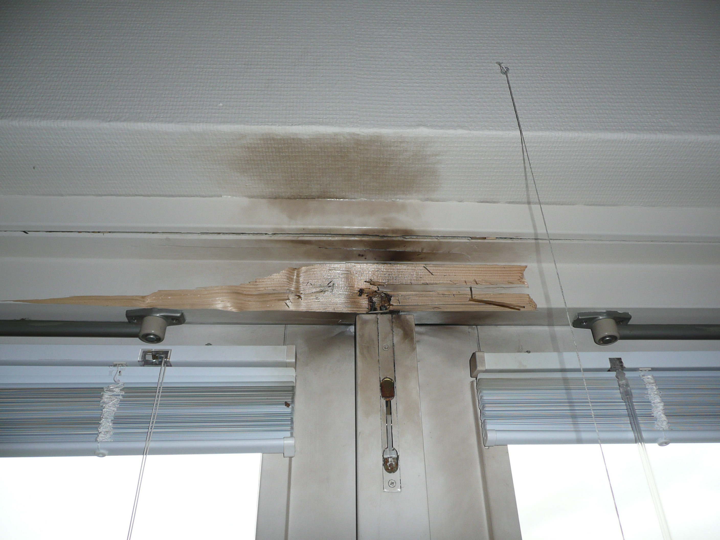 Door frame damaged by lightning strike